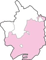 Map of South Monmouthshire constituency (1885 - 1918) (shown in pink), within Monmouthshire. Captioned As { }